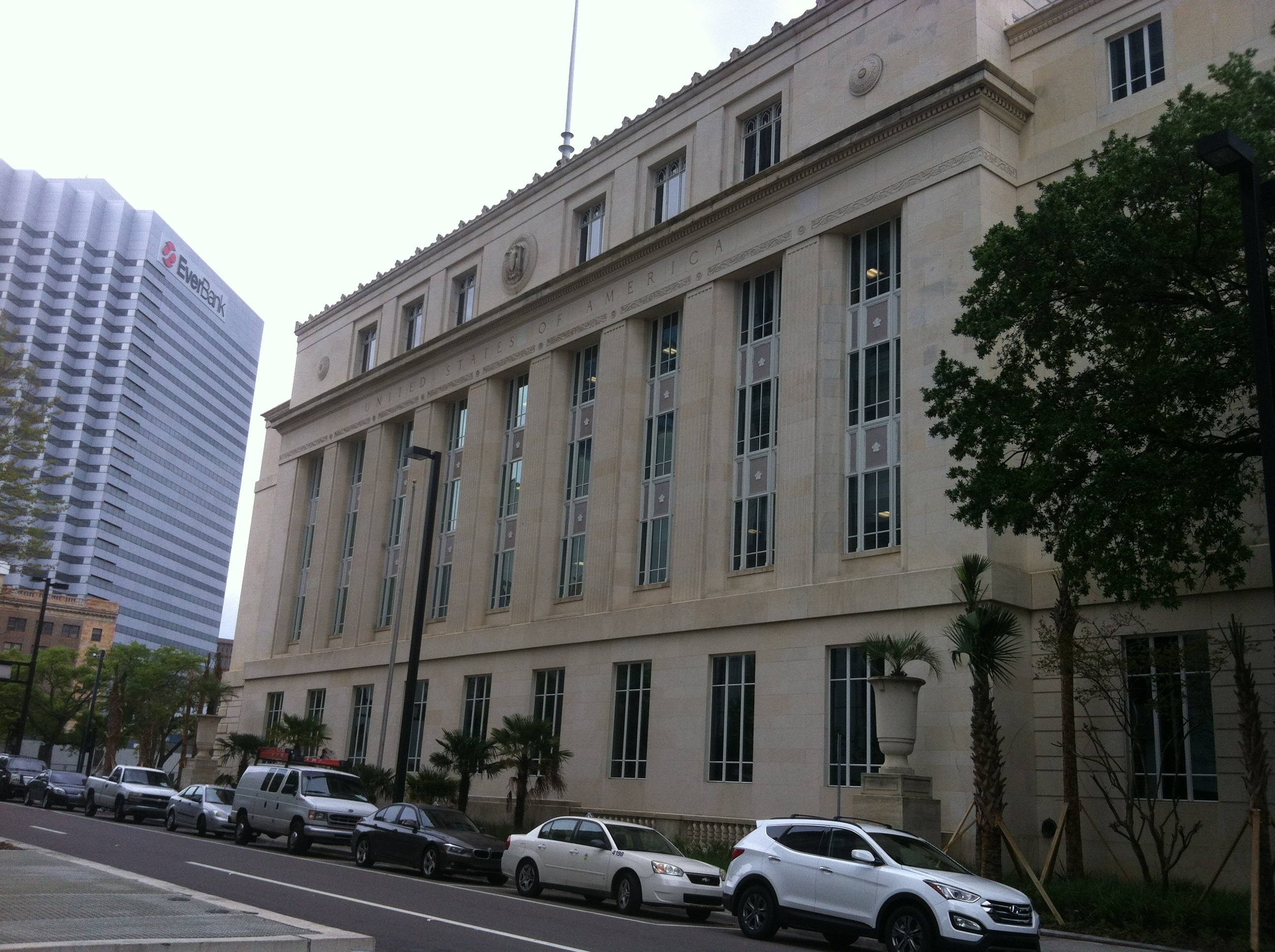 Ed Austin Building (Florida State Attorney's Office), Jacksonville, Florida